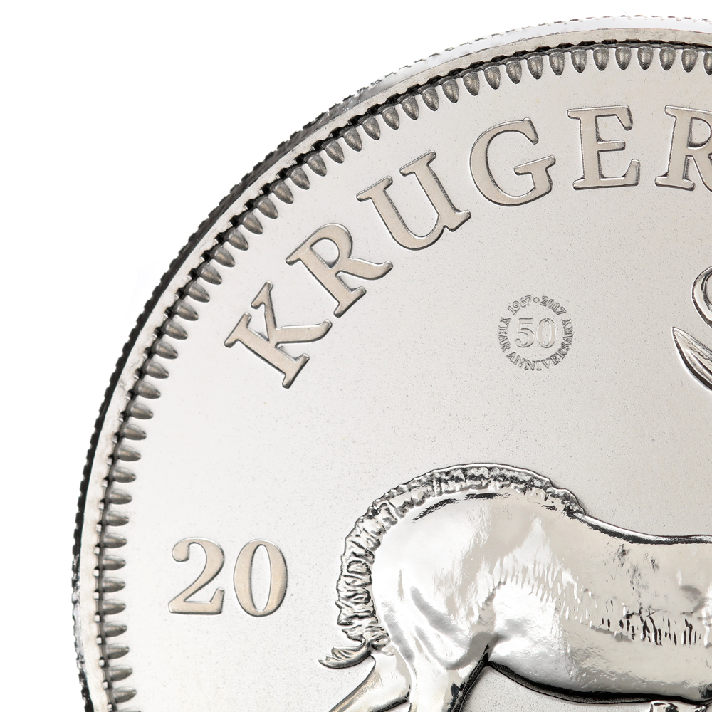 Detail of the 1 oz silver Krugerrand coin of 2017.